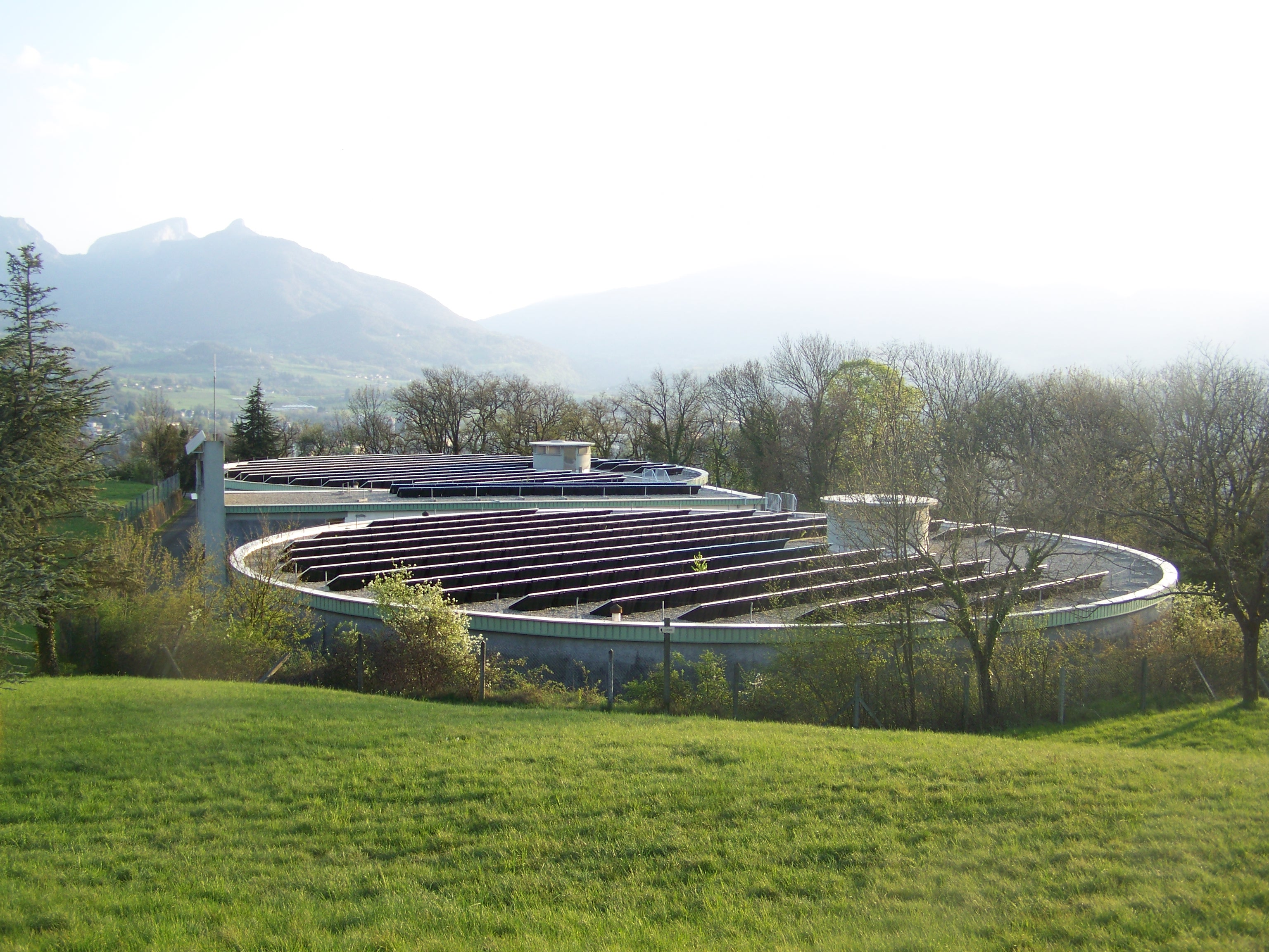 Sight of solar panels on the two reservoirs of Les Monts in Chambéry, Savoie, France. This belongs to the centrale solaire (solar farm) of the town.